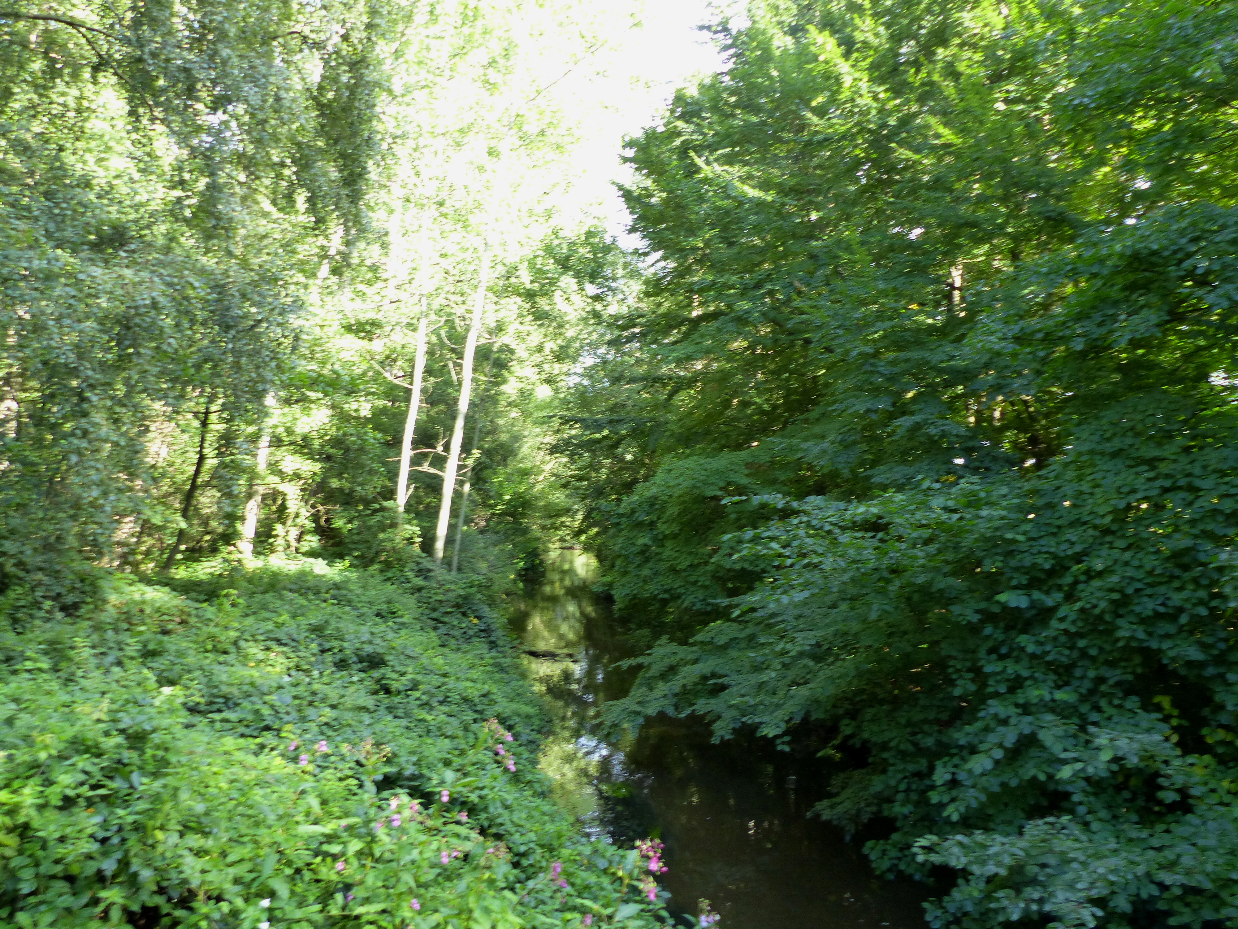 Ems river near Espeln, few kilometers after its source